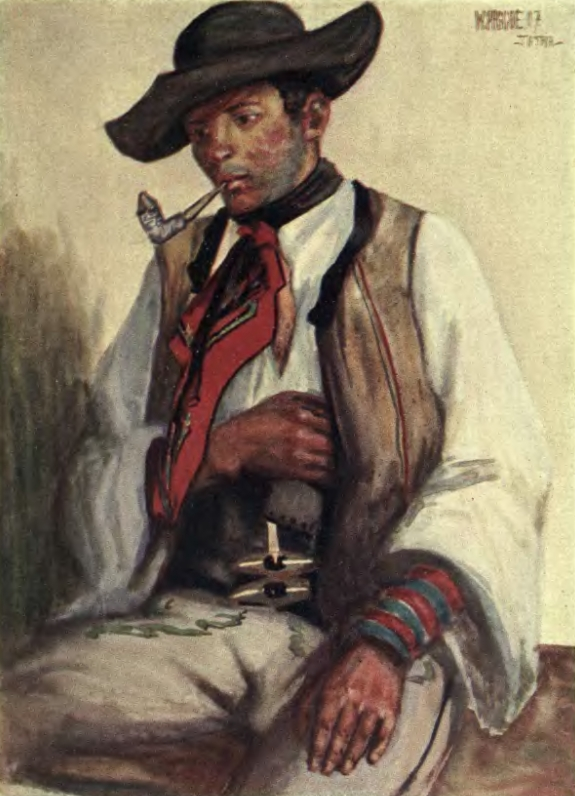 Slovak peasant from the Tatra mountains